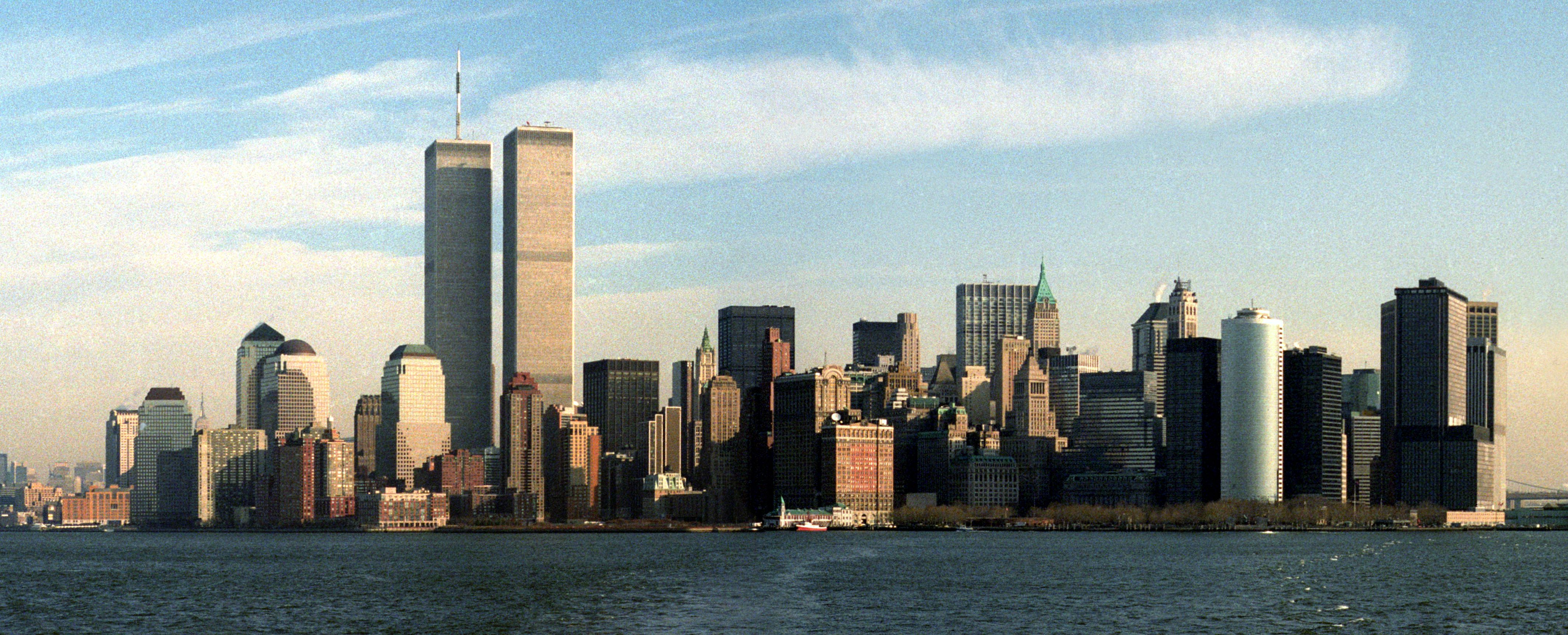 Lower Manhattan skyline, December 1991.